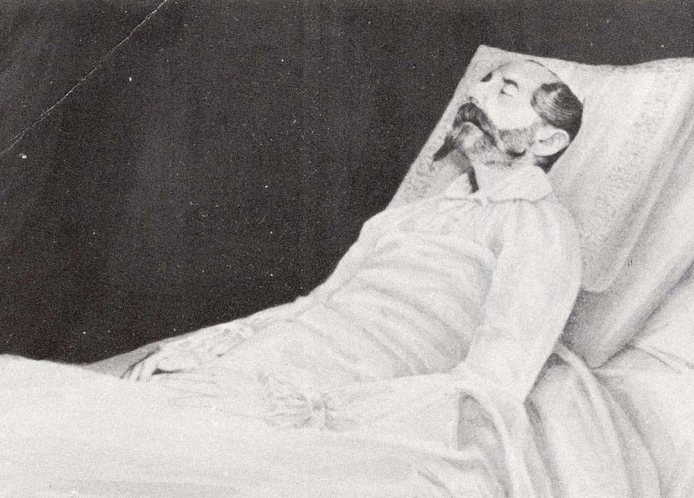 Body of King Oscar I of Sweden and Norway, after death; Place: Stockholm Palace, Sweden